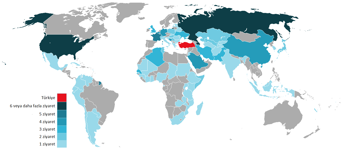 Foreign trips made by Recep Tayyip Erdoğan as President of Republic of Turkey.